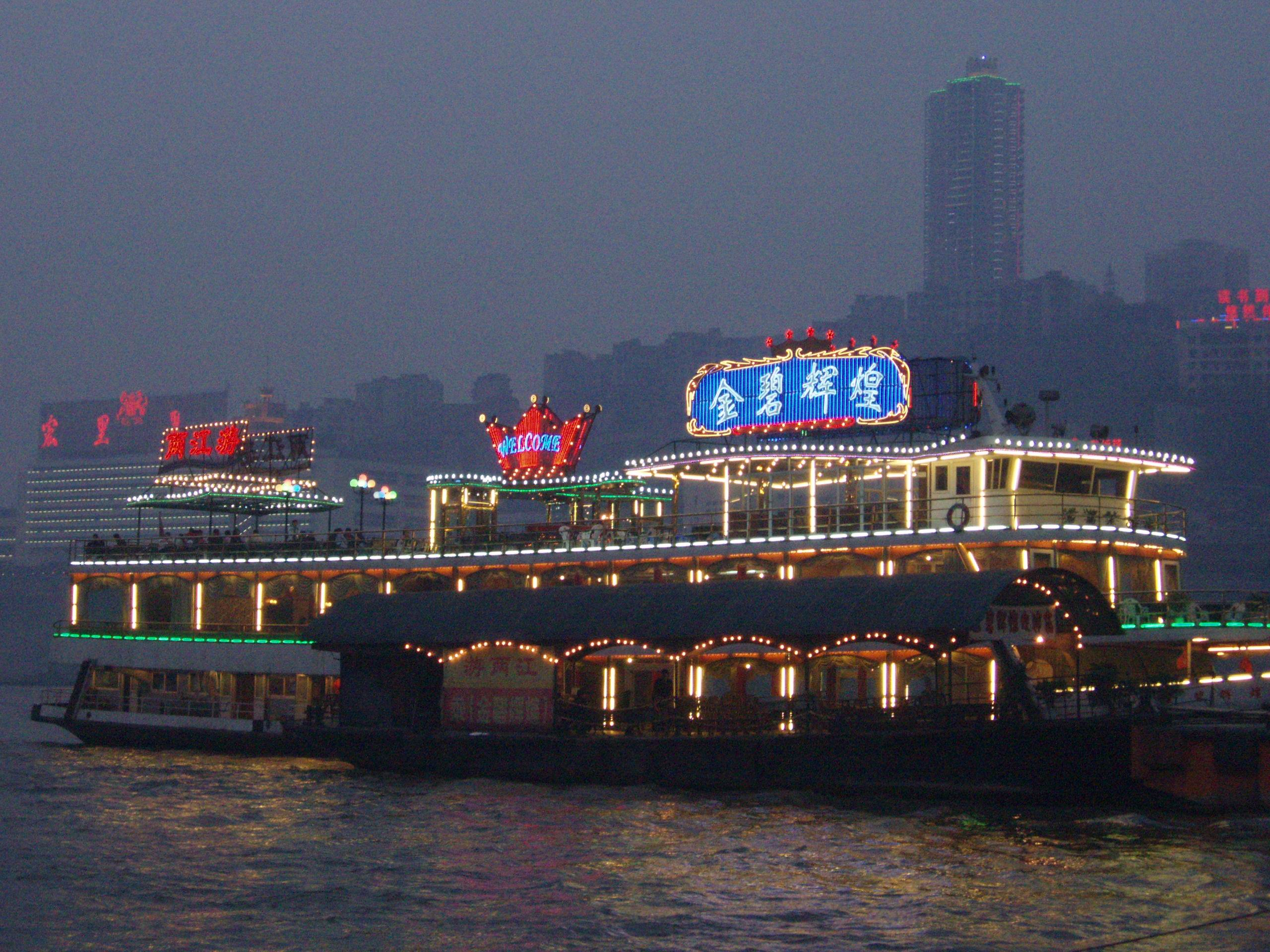 Night view on Chang Jiang near Chongqing, China